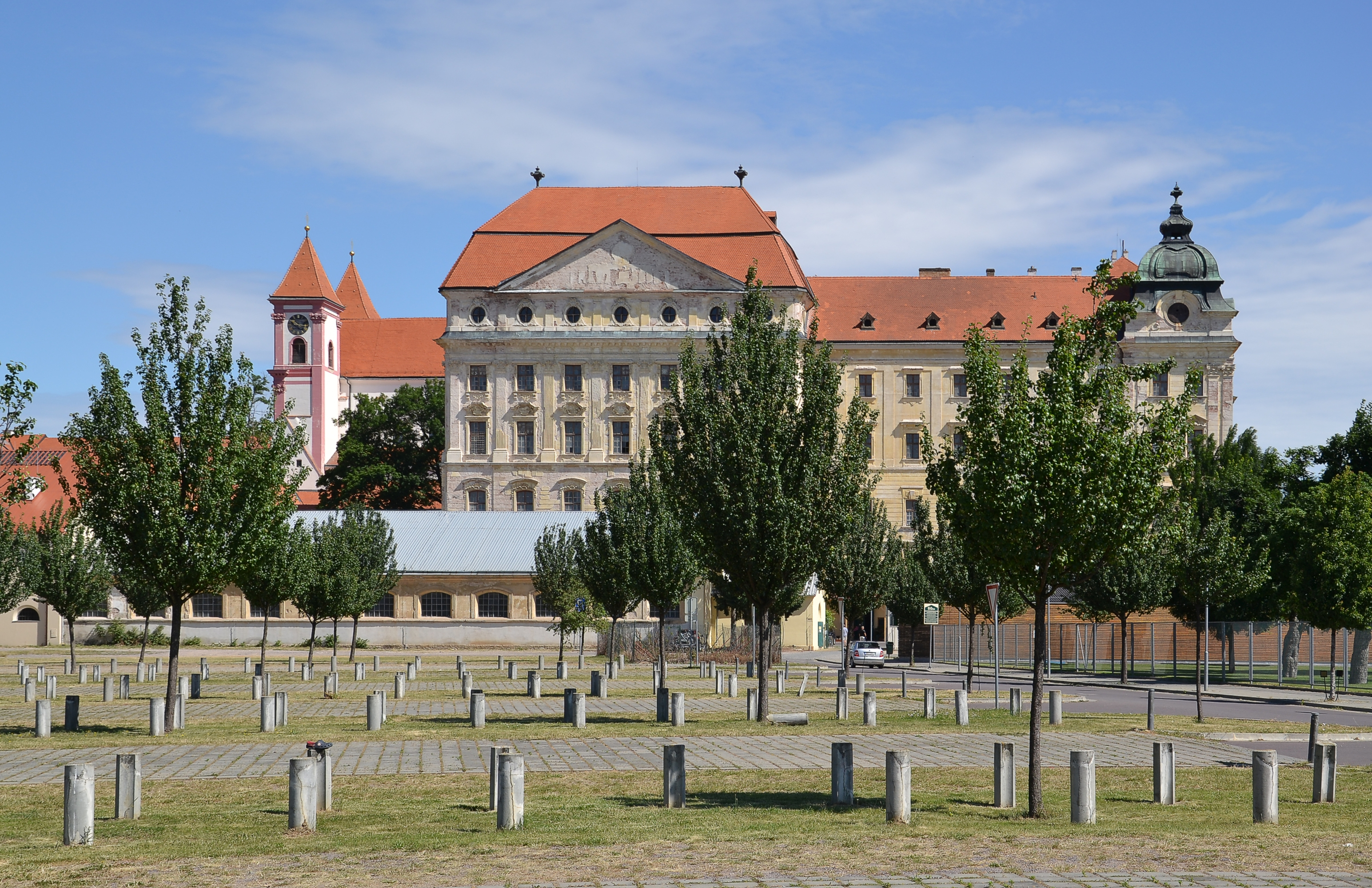 Monastery Louka, Znojmo (Znaim)